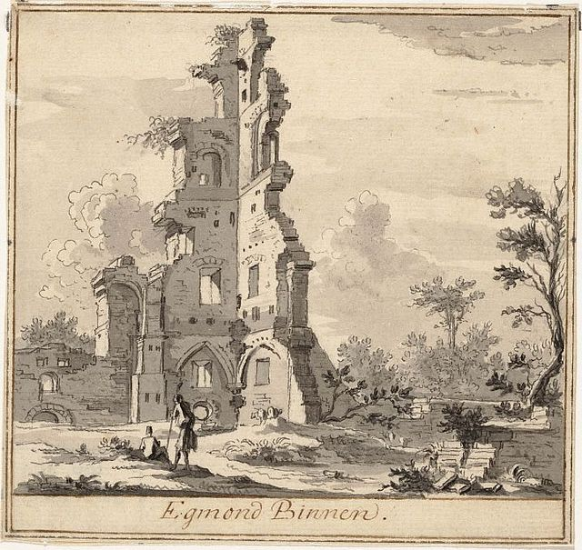 Pen and pencil drawing of the ruin of the Abbey of Egmond.